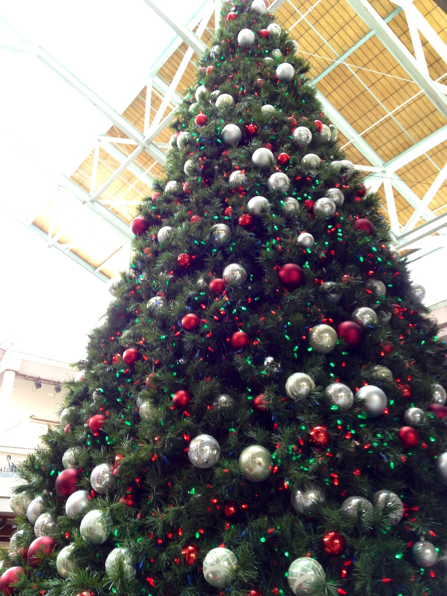 christmas tree